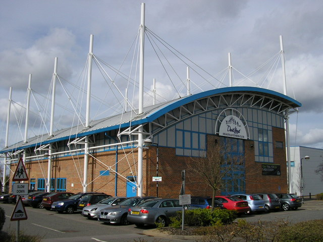 Fitness Centre, Thames Valley Park